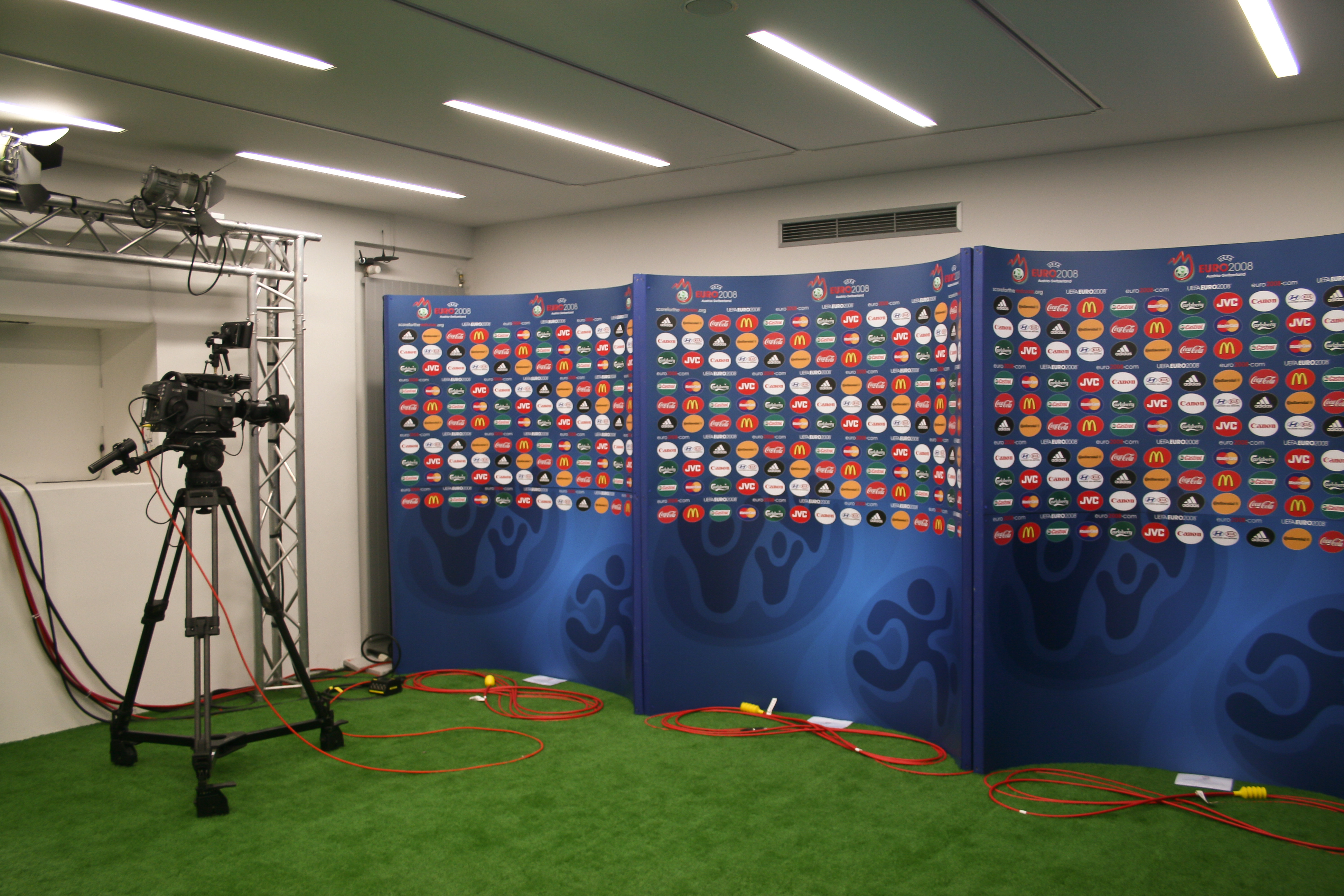 EM-Stadion Wals-Siezenheim in Salzburg during UEFA Euro 2008